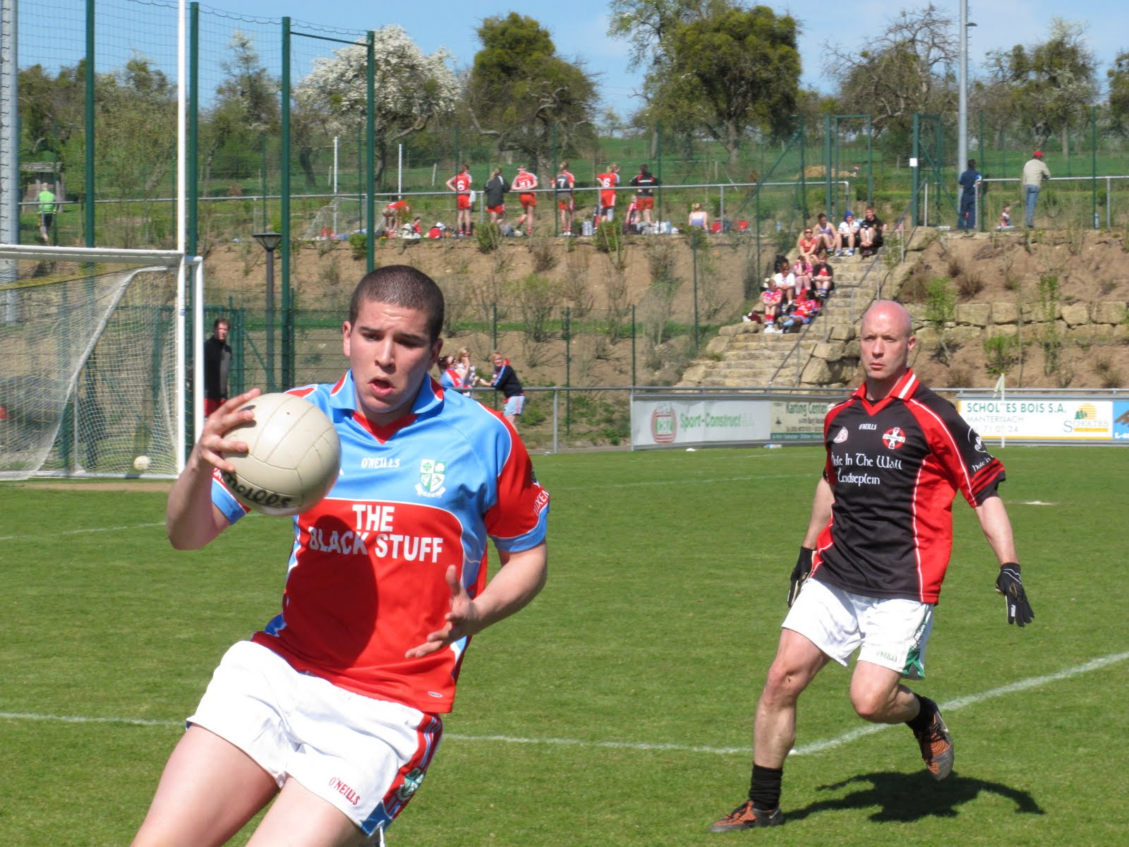 Gaelic Sports Club Luxembourg v Amsterdam GAC, Benelux Black Stuff Tournament at Berbourg, Luxembourg, April 2011